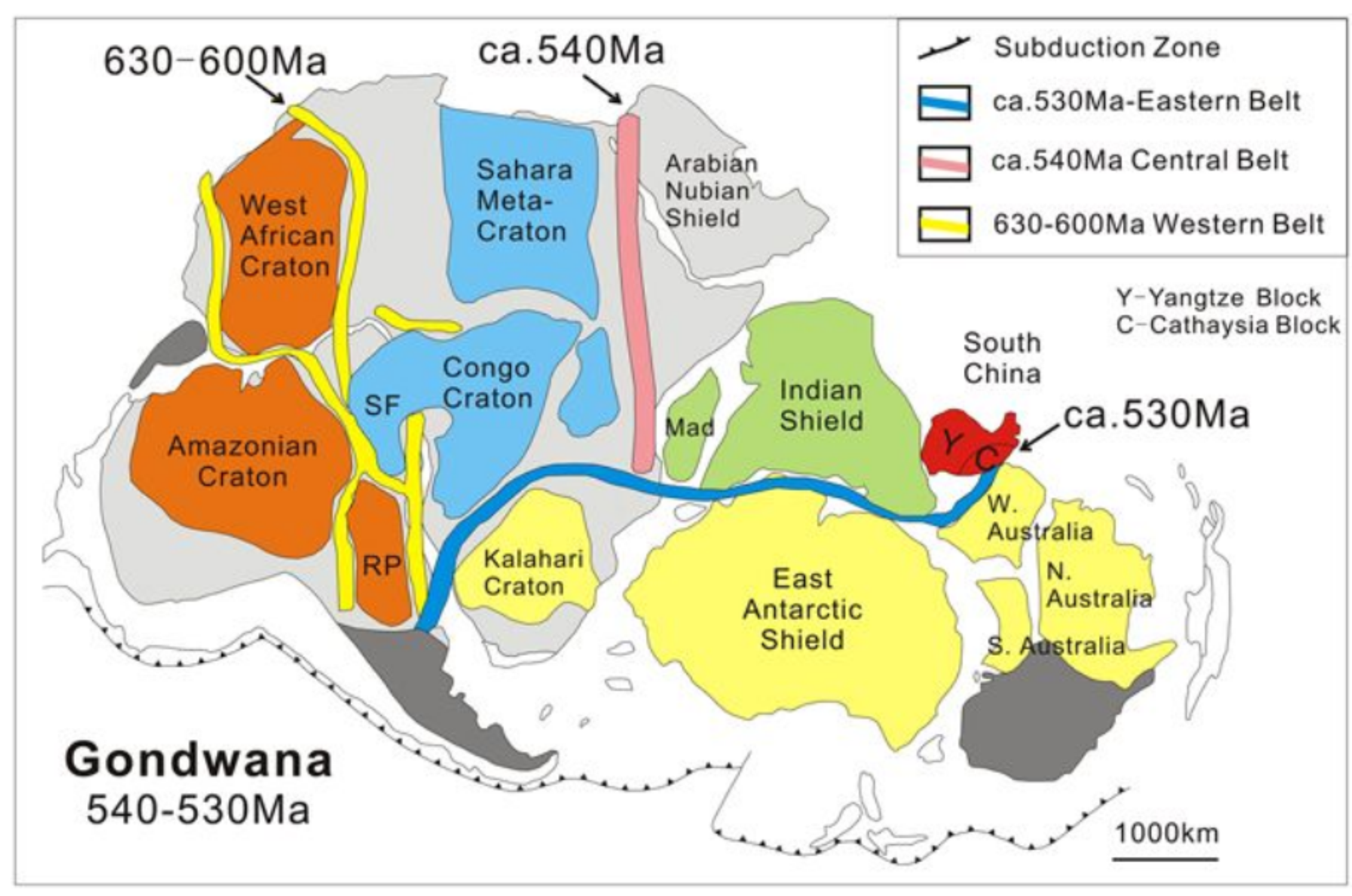 Paleocontinente de Gondwana